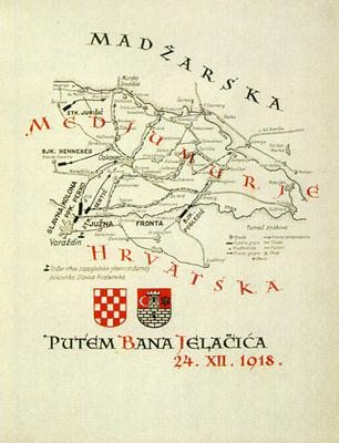 map of liberation of Medimurje operation, 1918.